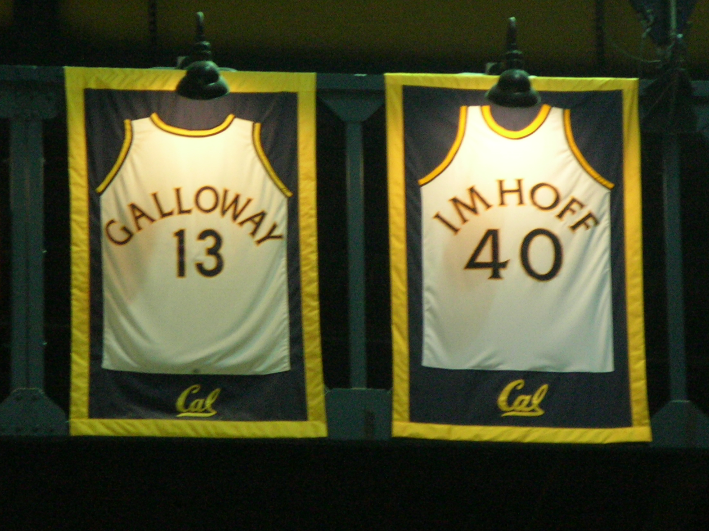 Retired Cal basketball jerseys hanging in Haas Pavilion.